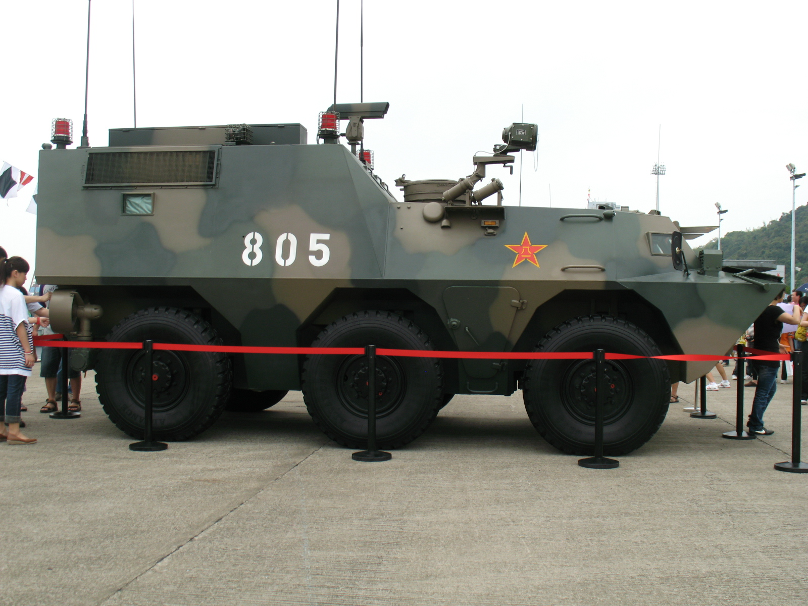 Type07 Armoured Command Personnel Carriers for PLA Hong Kong Garrisons. 中文（香港）: 解放軍駐港部隊陸軍首支裝甲通訊指揮戰車部隊，名為ZZH07型裝甲通訊指揮車。